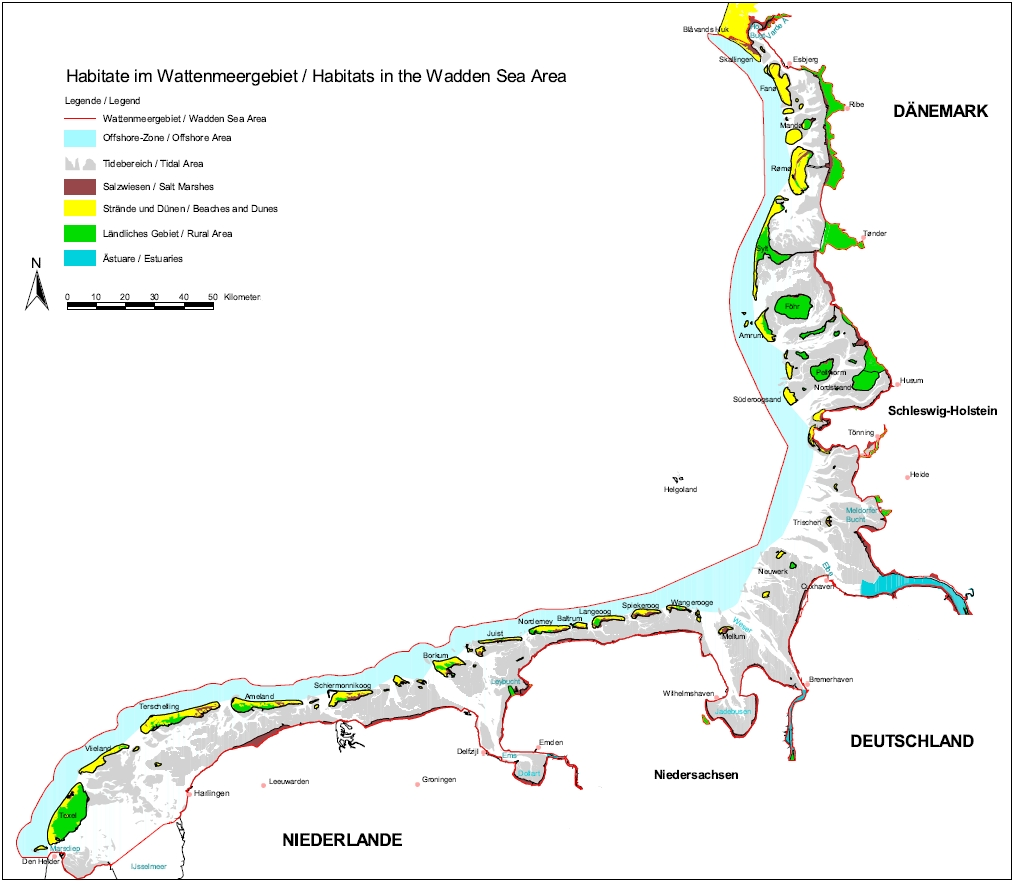 Map of the habitats in the Wadden Sea.